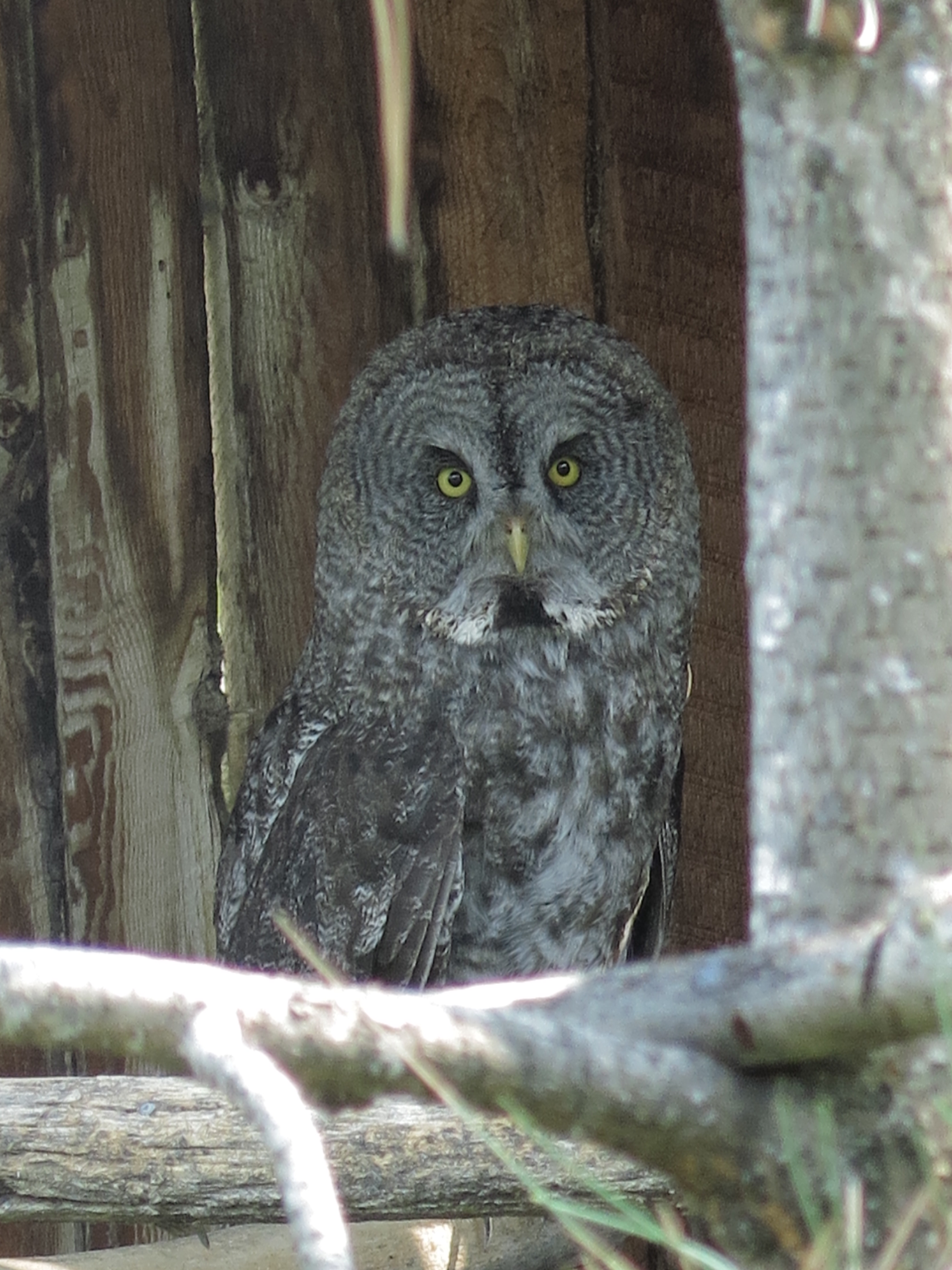 Owl at BC Wildlife Park